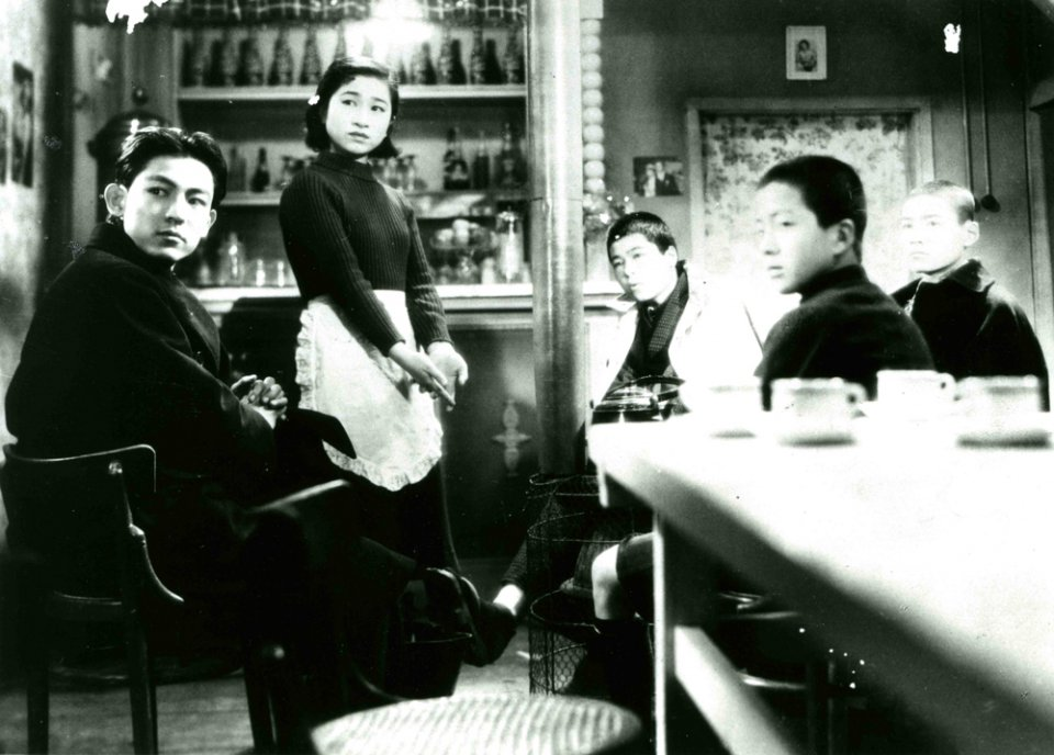 still photo of 'Hataraku Ikka'